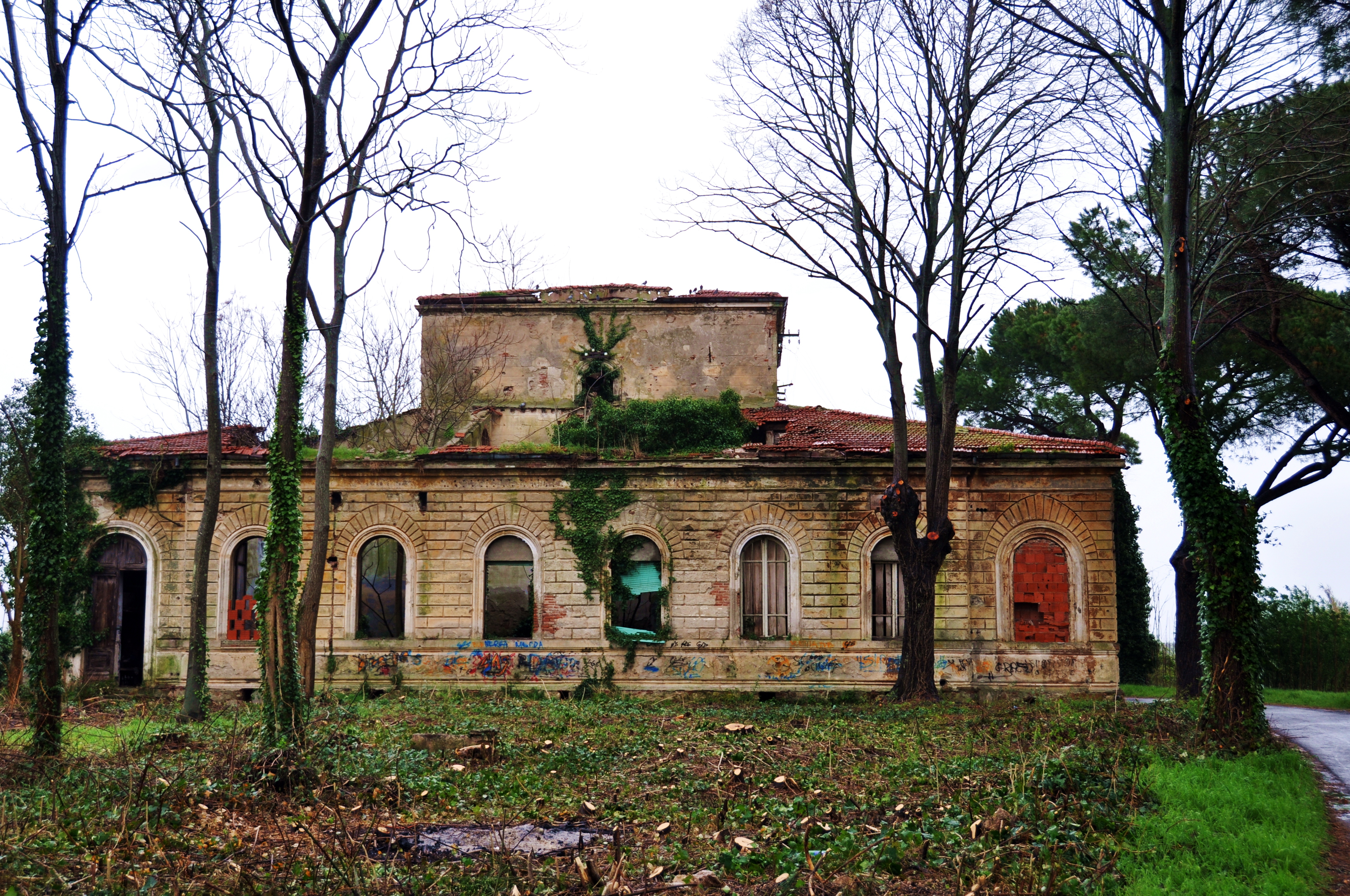 Radio Center of Coltano. Hosted the first radio experiments by Gugliemo Marconi.